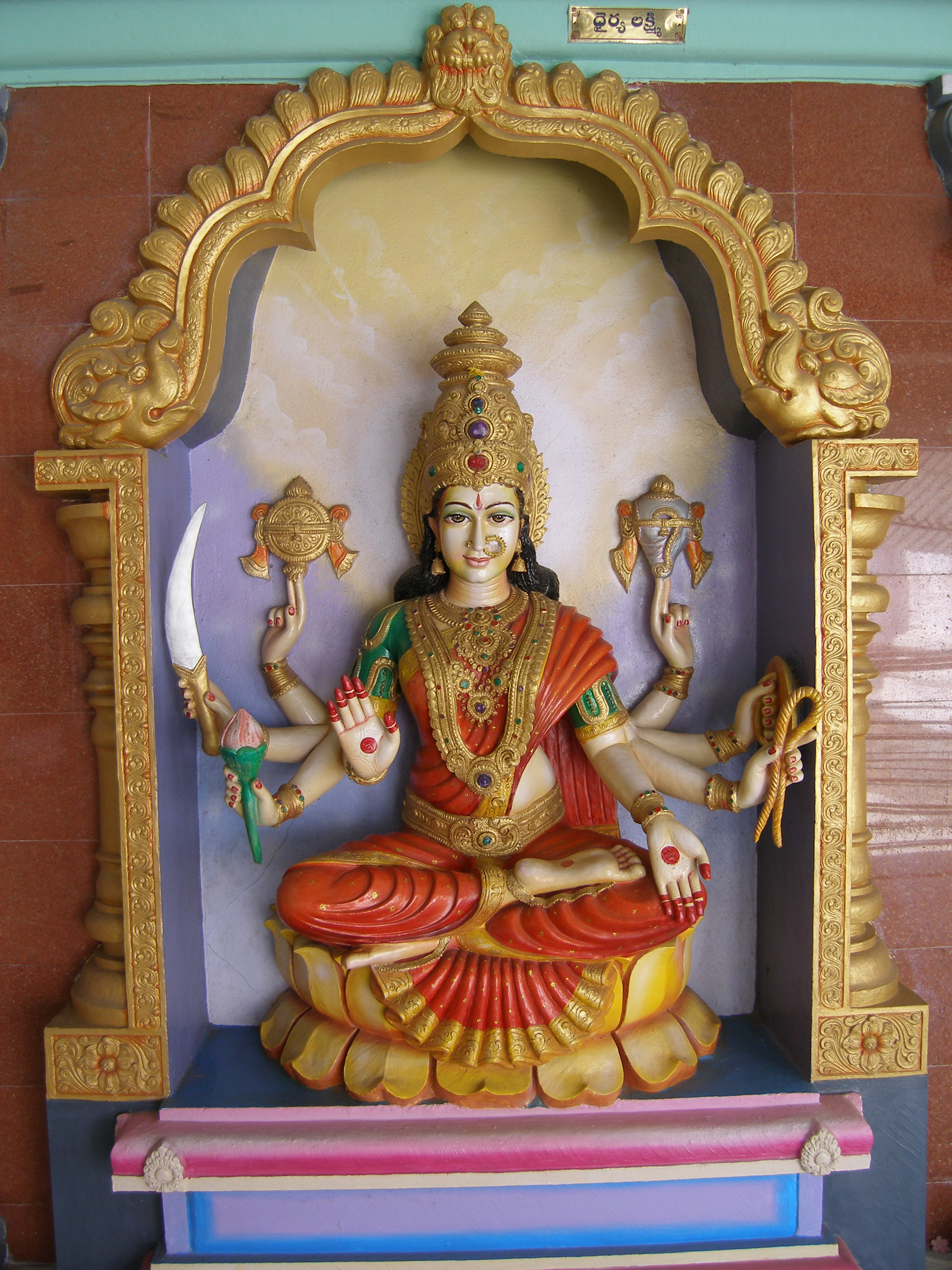 Dhairya Laxmi at Narayana Tirumala.